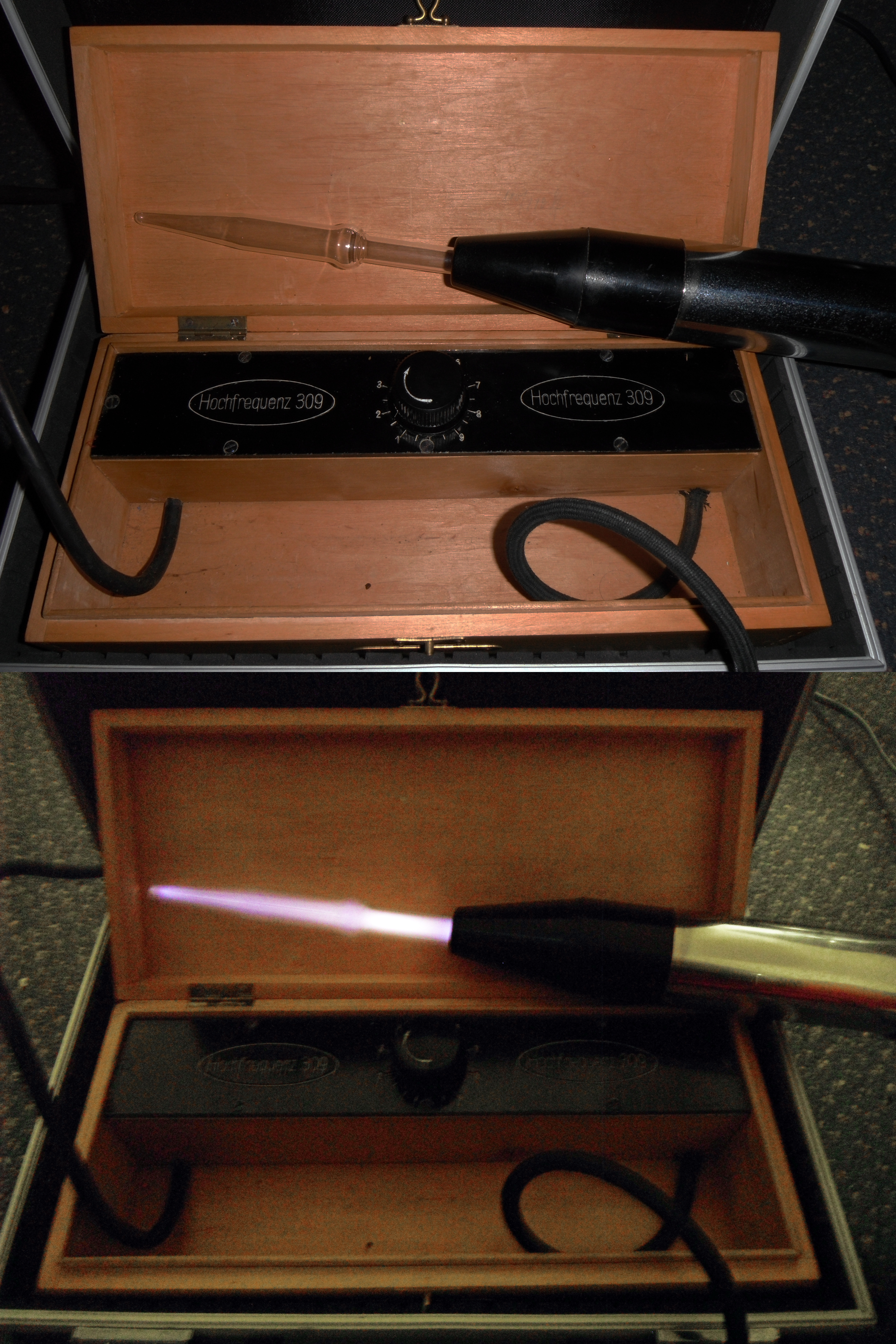 A violet ray apparatus shown turned off and operating.